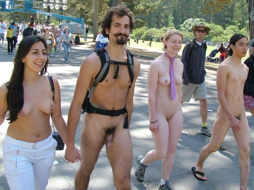 San Francisco Street Parade